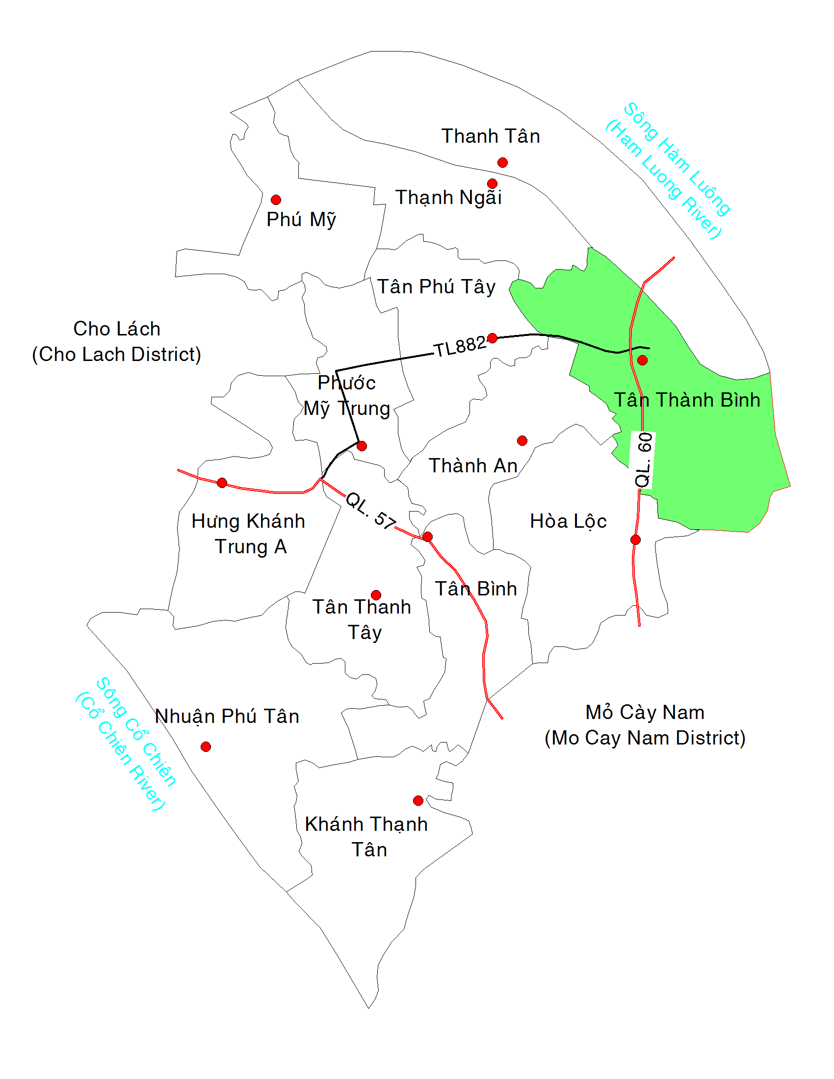 Locaiton map of Tân Thành Bình commune, Mo Cay Bac District, Ben Tre province, Vietnam